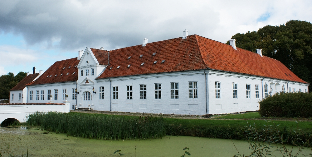 Store Restrup Mansion (hotel), Aalborg kommune, Denmark